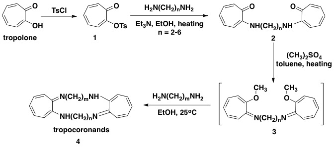 Synthetic Route for Tropocoronand Ligands